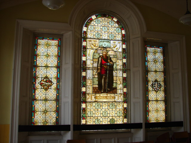 Lochmaben Town Hall Interior (1) Stained glass portrait (1879) of William Wallace situated in the east windows of the first-floor hall.